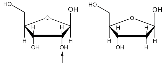 Ribose (left) compared with deoxyribose. The arrow marks the missing oxygen in the latter.